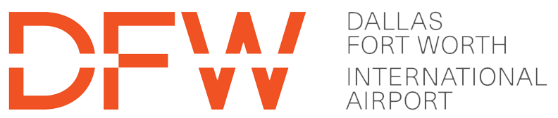 Logo for the Dallas/Fort Worth International Airport.